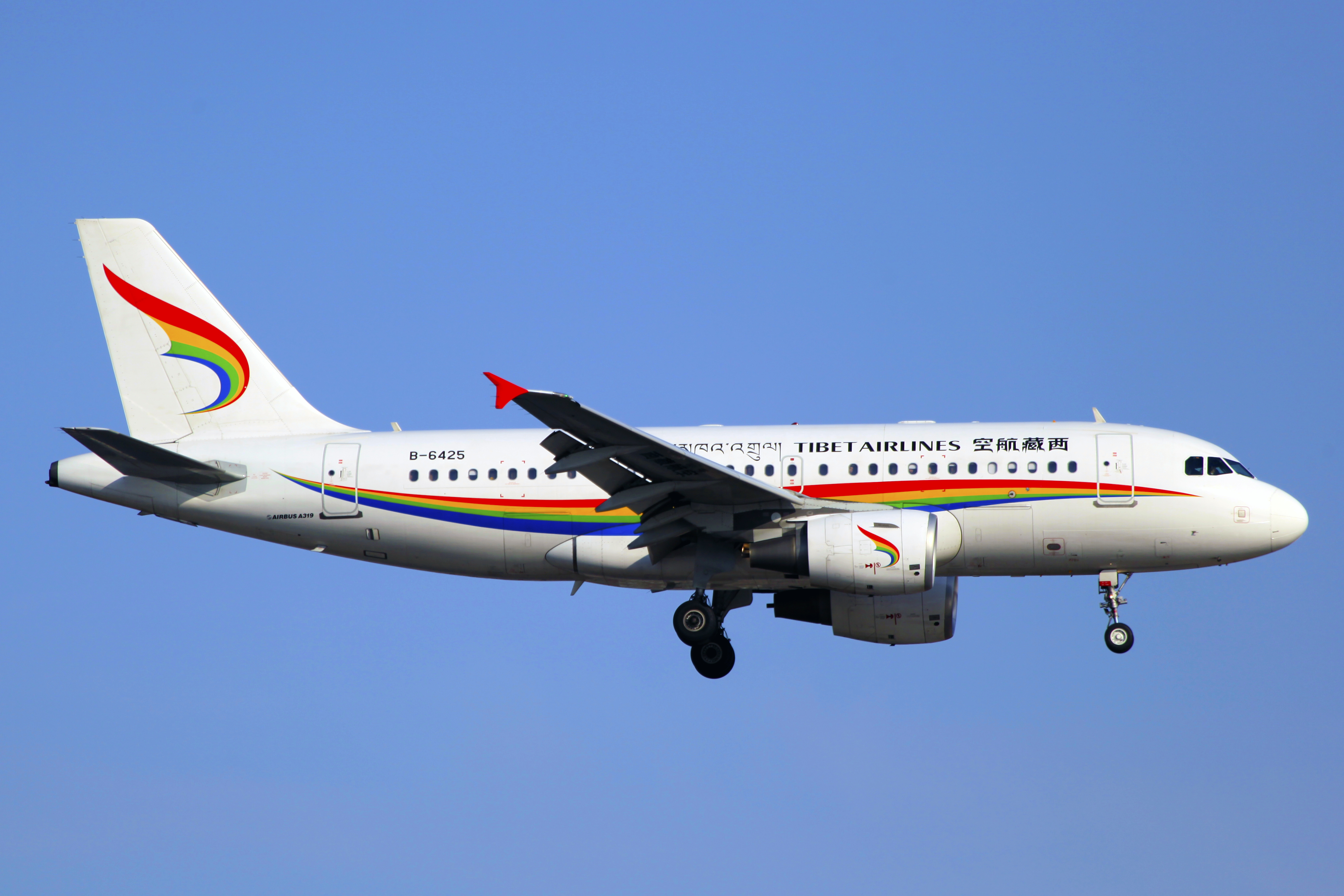 B-6425 | Tibet Airlines | Airbus A319-115 | Shanghai Hongqiao International Airport [SHA]